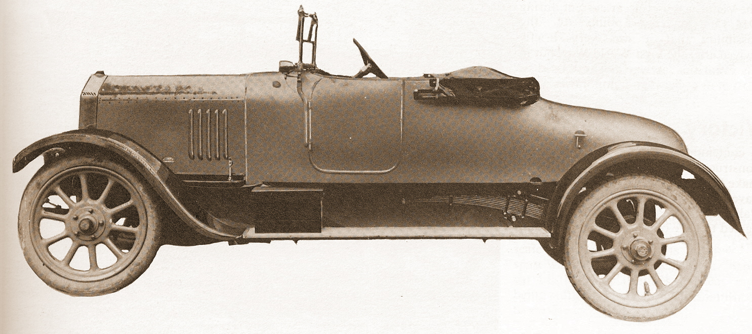 1920 Varley-Woods